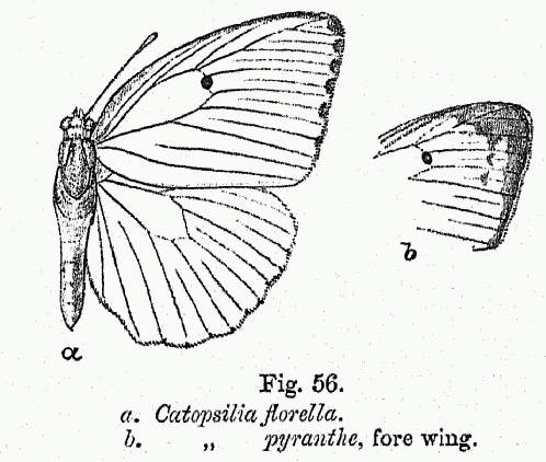 African Emigrant (C. florella), Mottled Emigrant (C. pyranthe)